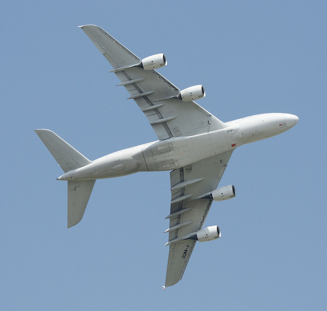 Airbus A380 at ILA 2008